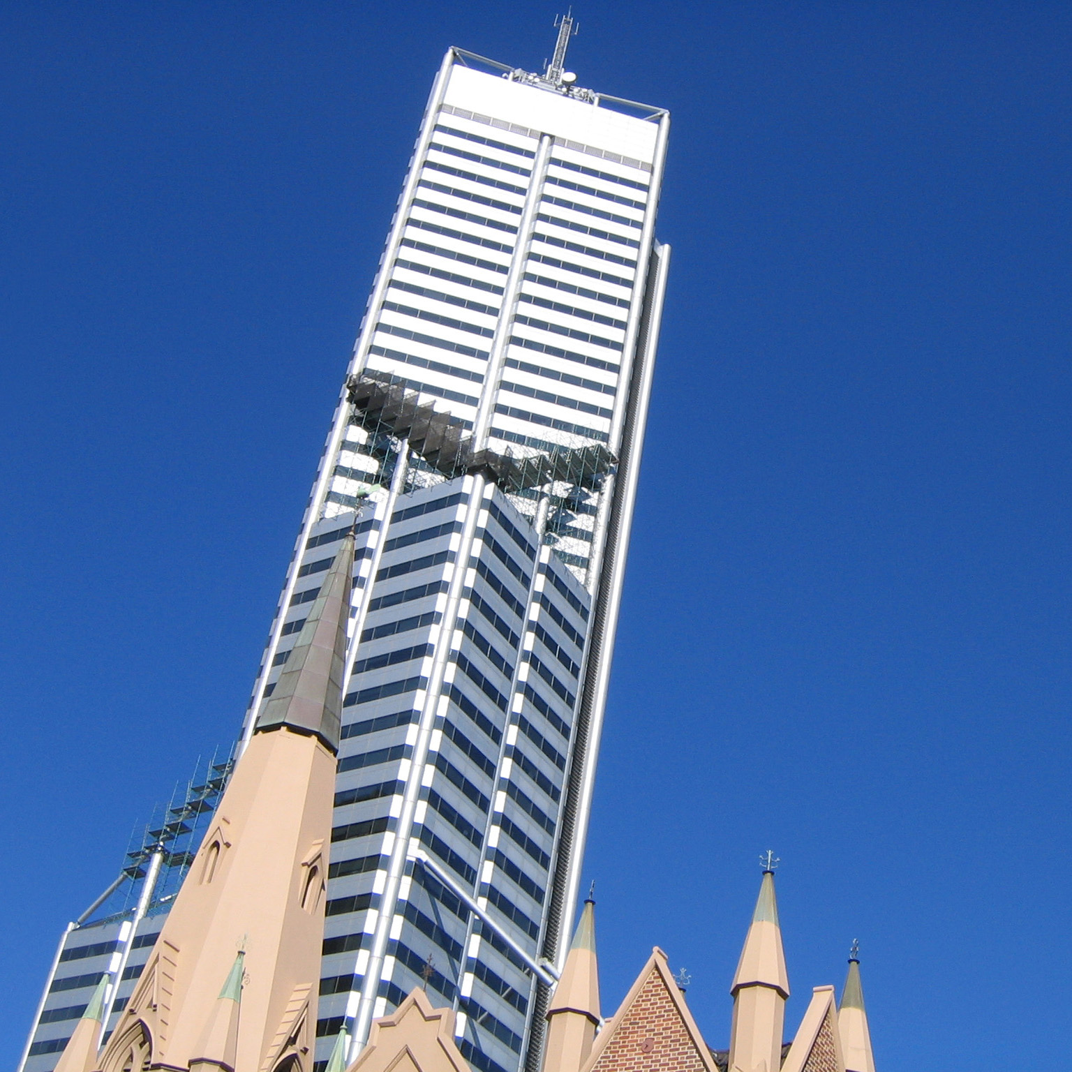 Central Park tower, with the spires of Wesley Church in foreground, Perth, Western Australia.